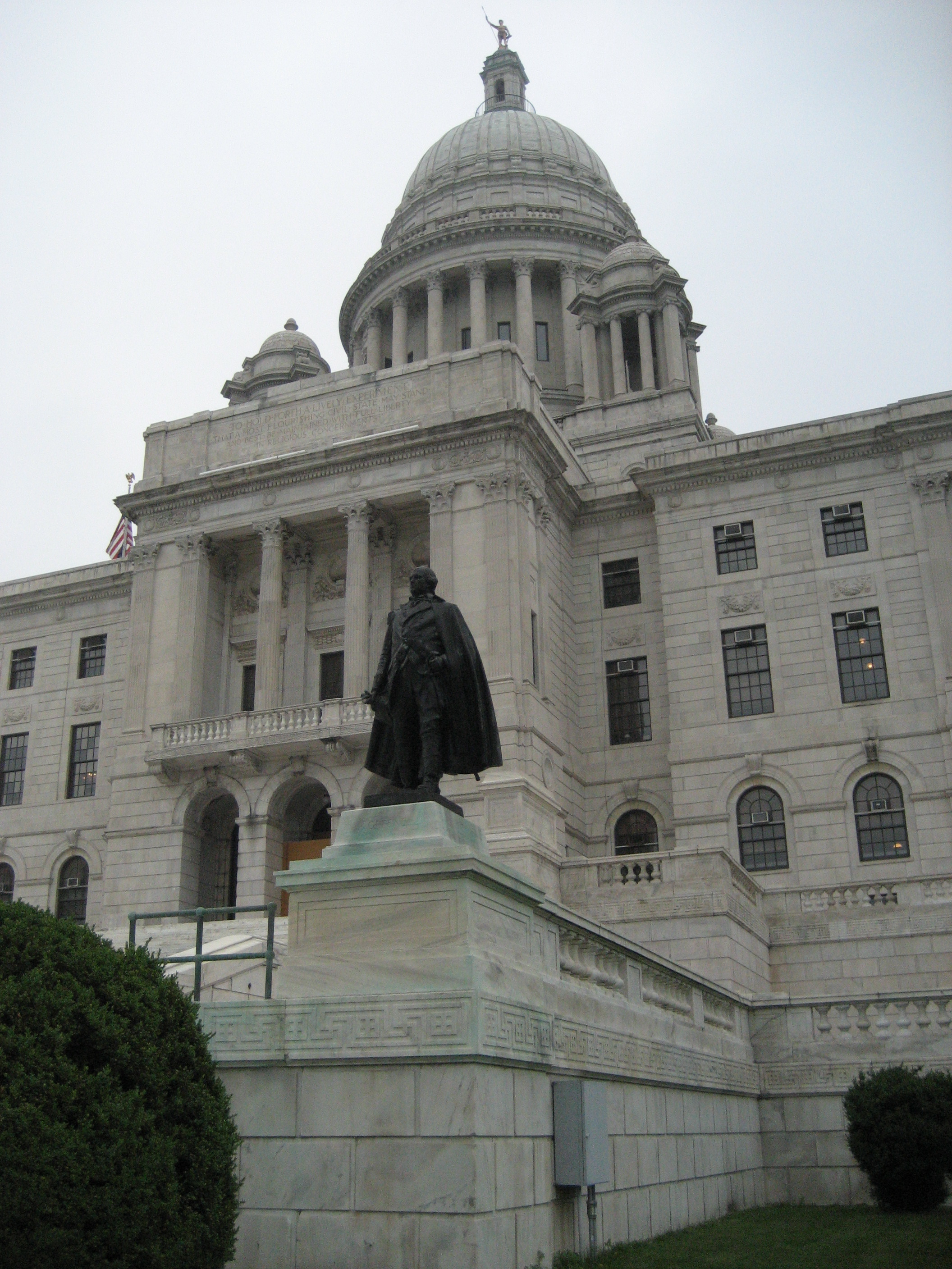 Rhode Island State House, Providence, RI